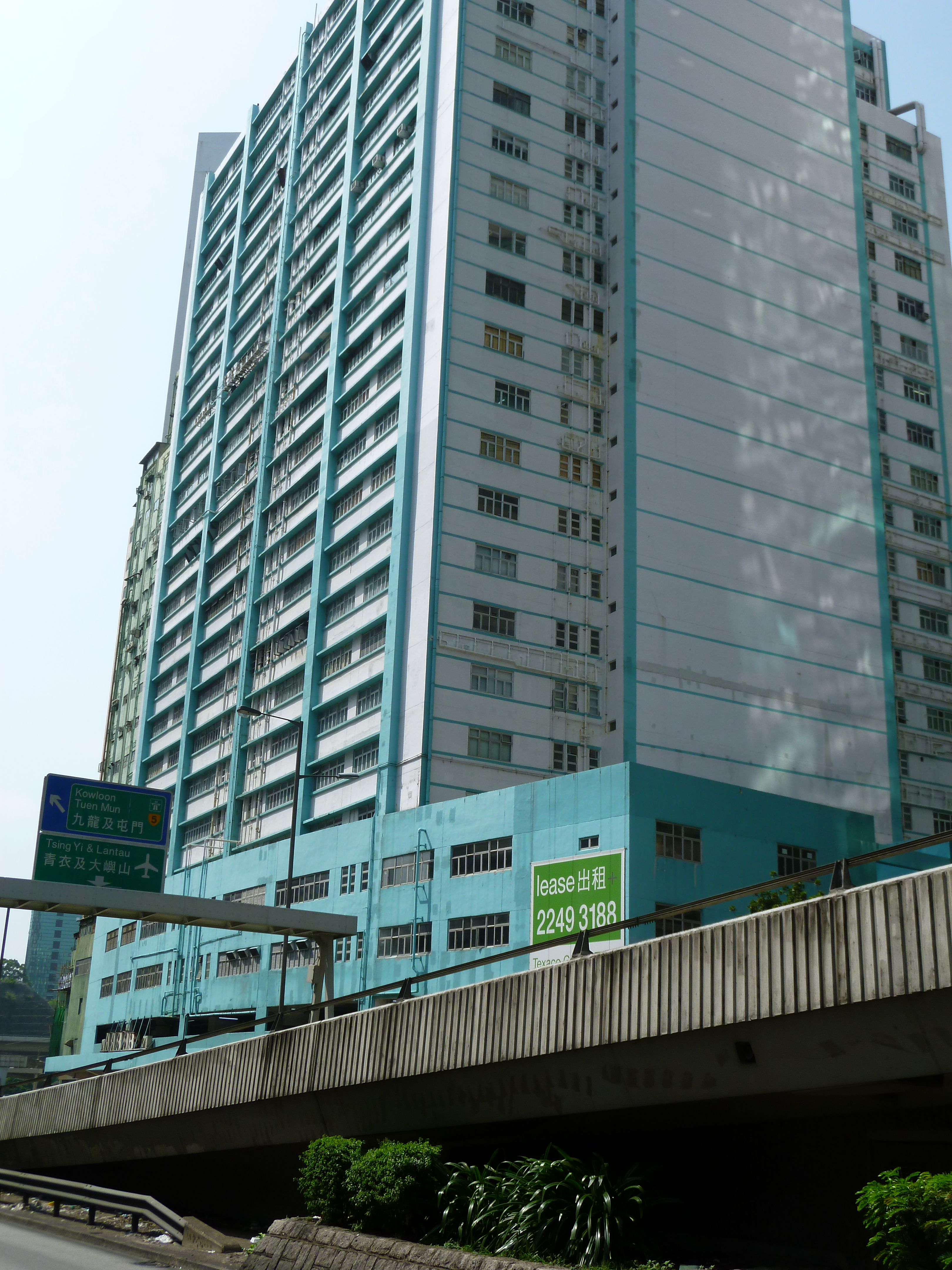 Texaco Centre, 126-140 Texaco Road, Tsuen Wan, Hong Kong 中文（香港）: 香港荃灣德士古道126-140號德高中心